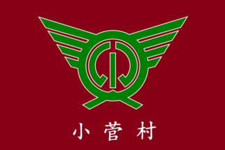 Flag of Kosuge Yamanashi